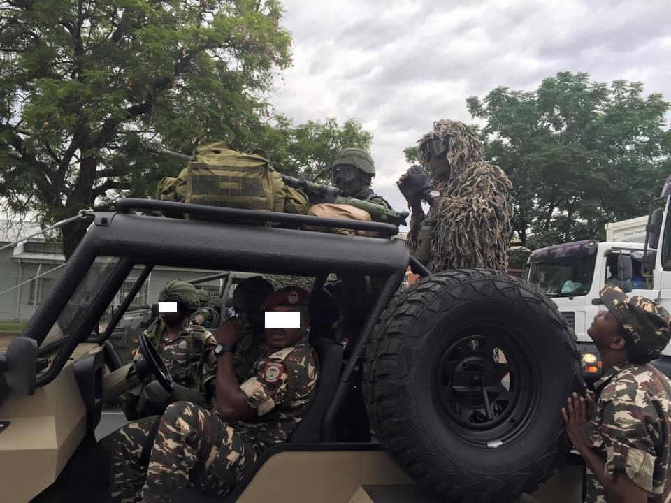 Namibian Defence Force Special Forces